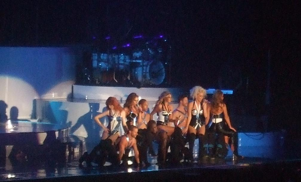 Girls Aloud in concert in Glasgow.